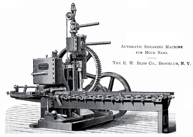 E. W. Bliss Company's Automatic Shearing Machine for Muck Bars. Image published 1894.